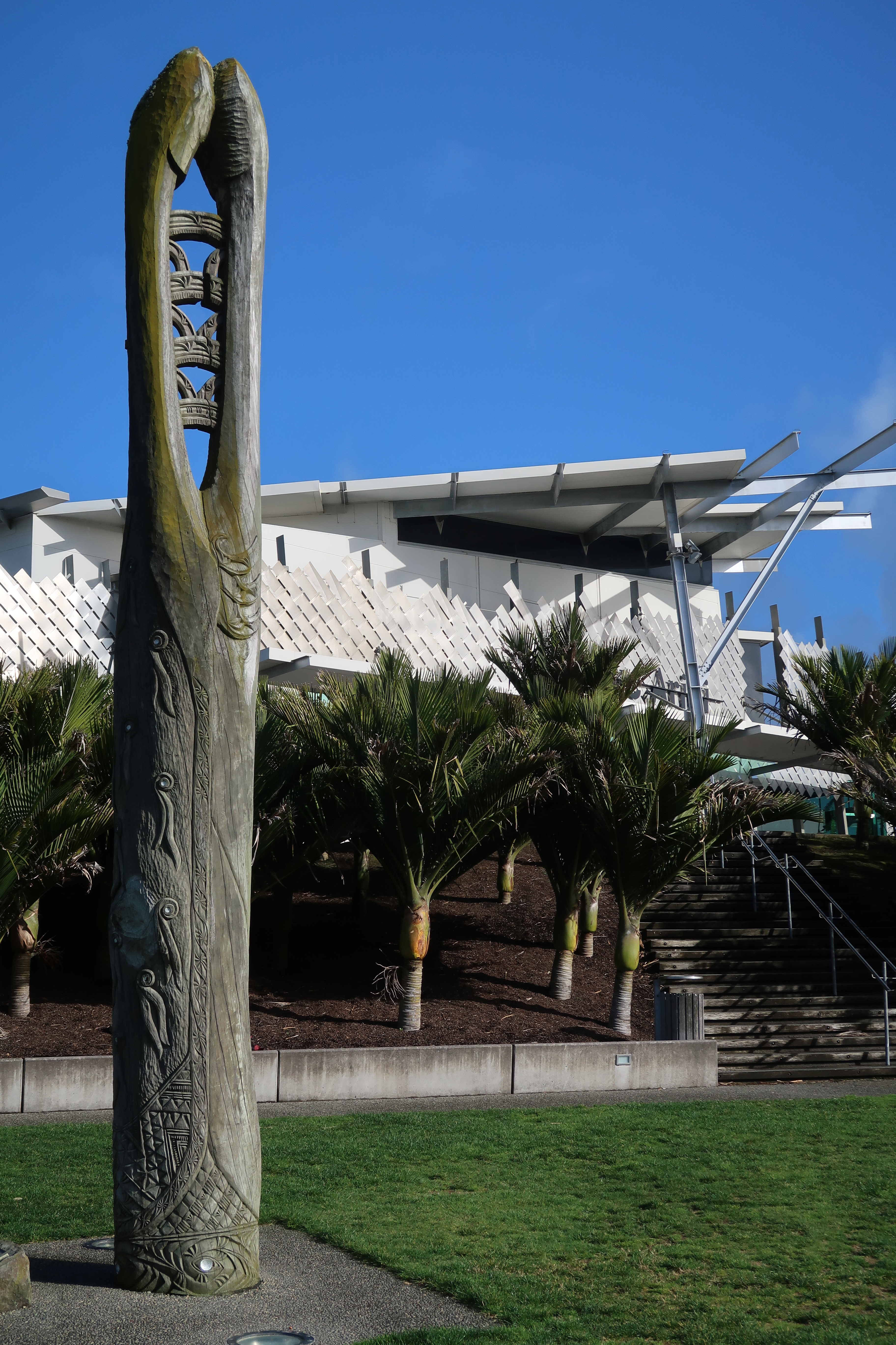 Puke Ariki, the museum and library in New Plymouth, New Zealand. The wooden pou or pole was carved by the Rangimarie Arts and Crafts Centre for the New Plymouth Sesquicentennial in 2001. Called Tukotahi/Standing Together, it depicts the first meeting of Māori (in a korowai or cloak) welcoming a Pākehā settler (in a swallow-tailed morning coat).